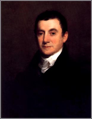 19th century painting of U.S. Supreme Court Justice Henry Baldwin